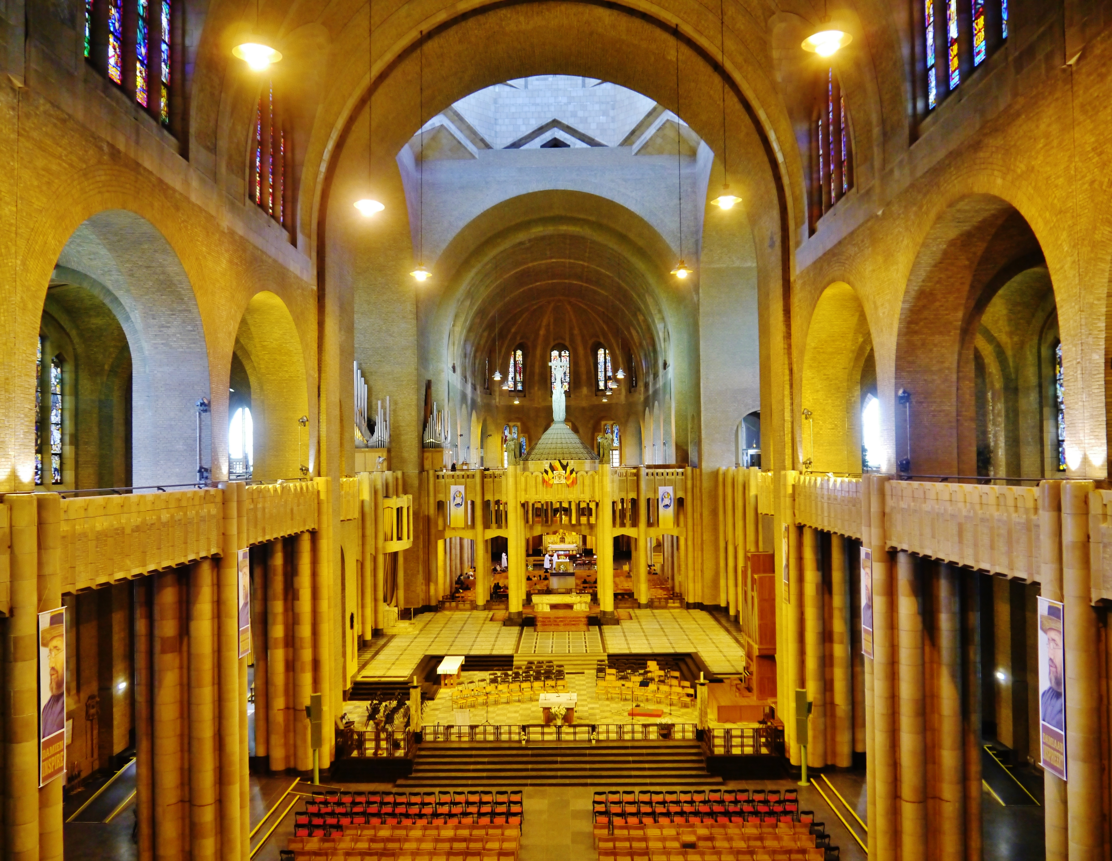 Nave of the National Basilica of the Sacred Heart, Koekelberg, Region of Brussels, Belgium